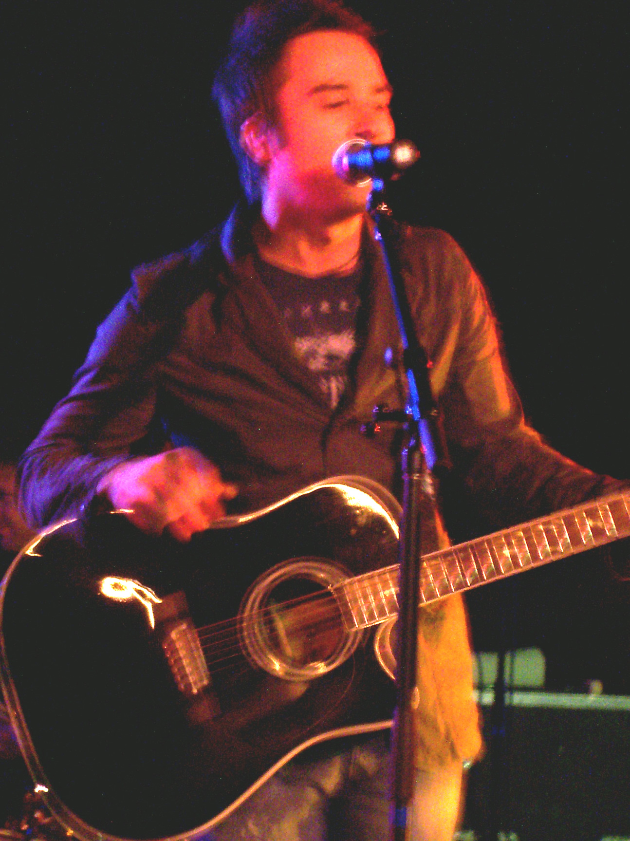 Image of Goran Kralj, lead singer of the band "The Gufs" at their concert. He had a solo CD. Taken at the University of Wisconsin-Green Bay, Green Bay, Wisconsin, USA